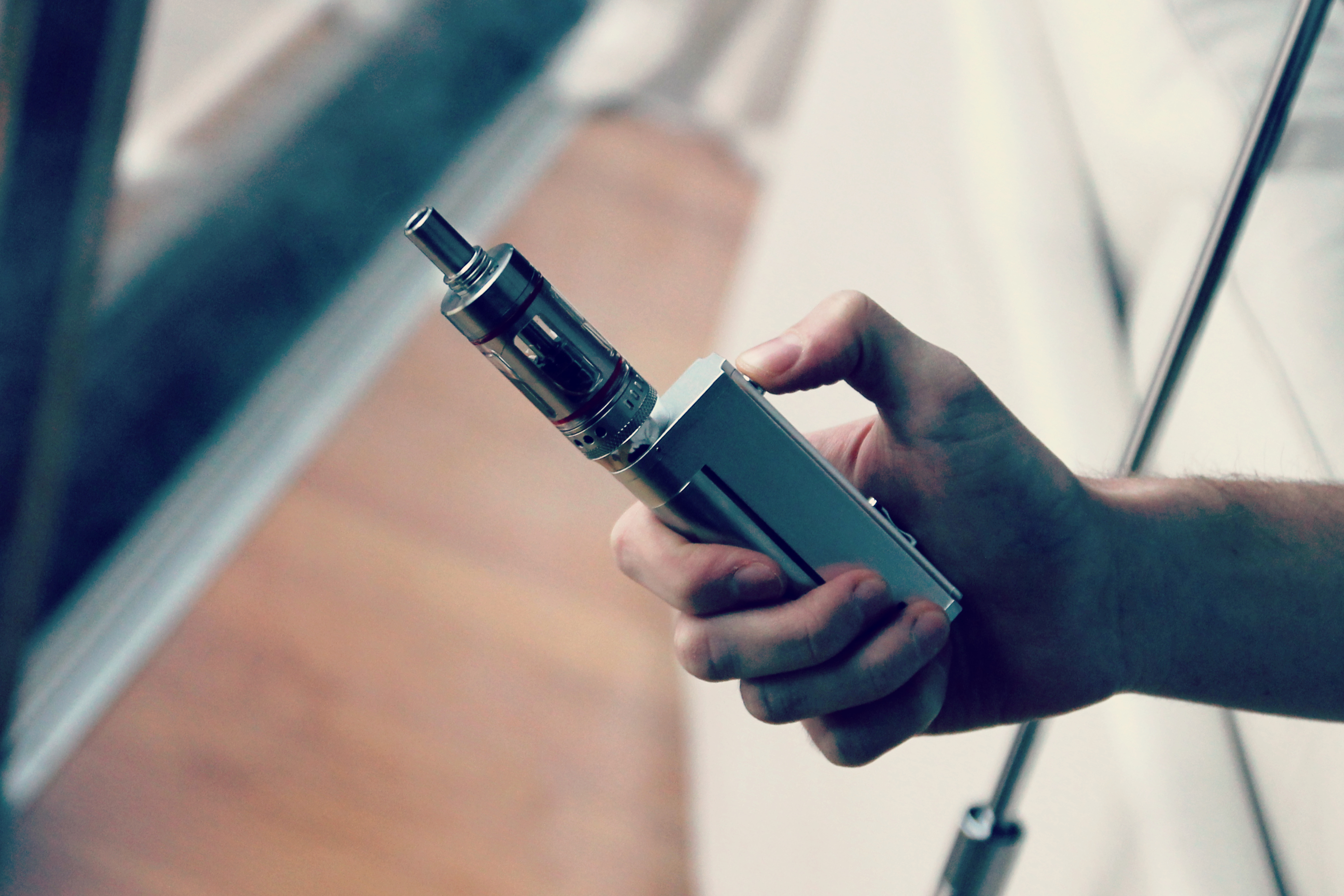 This image is released under Creative Commons. If used, please attribute a DOFOLLOW link to and not to our Flickr page. '